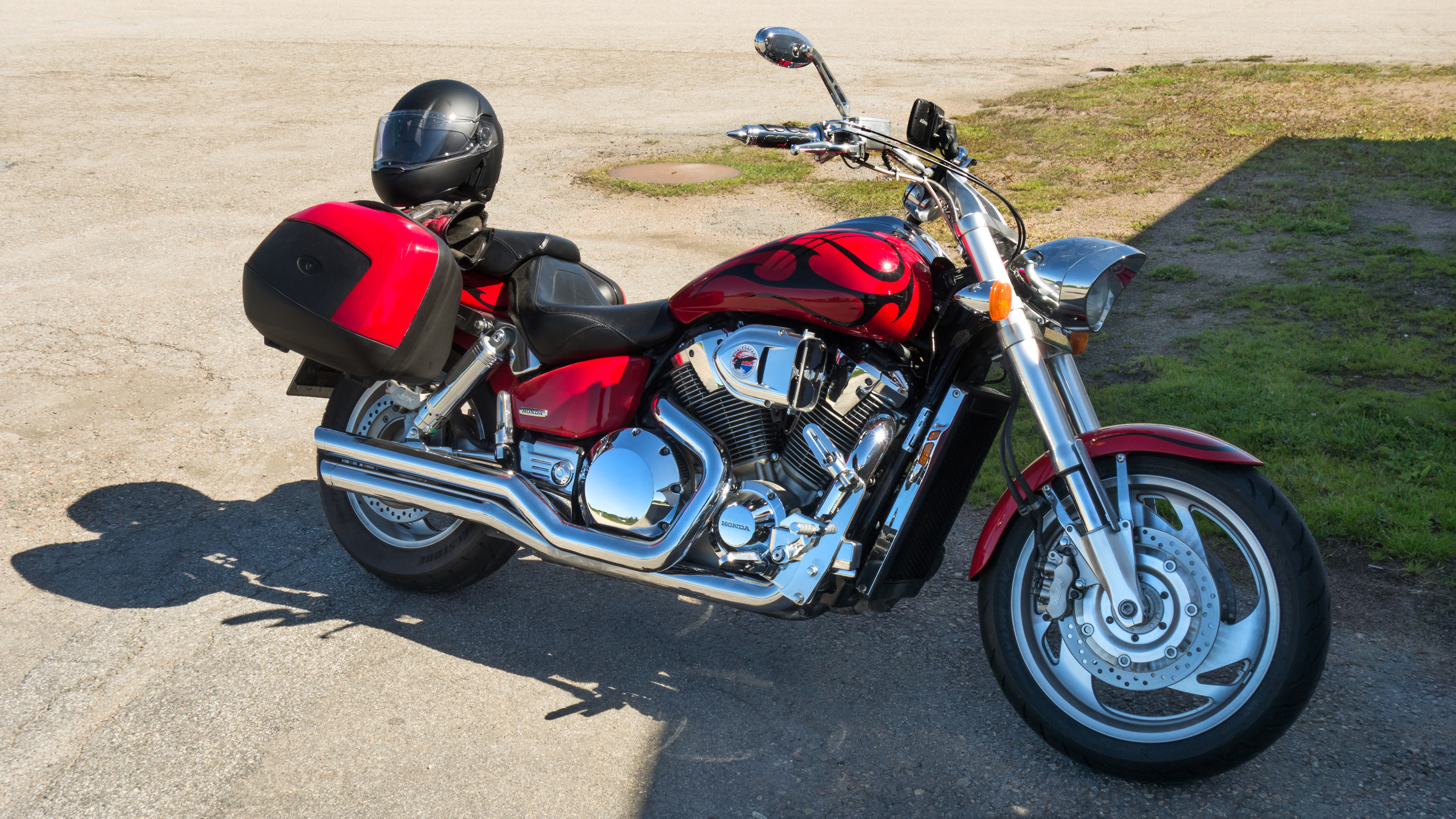 Honda VTX 1800 C 2007 outside a workshop in Gåseberg, Lysekil Municipality, Sweden.